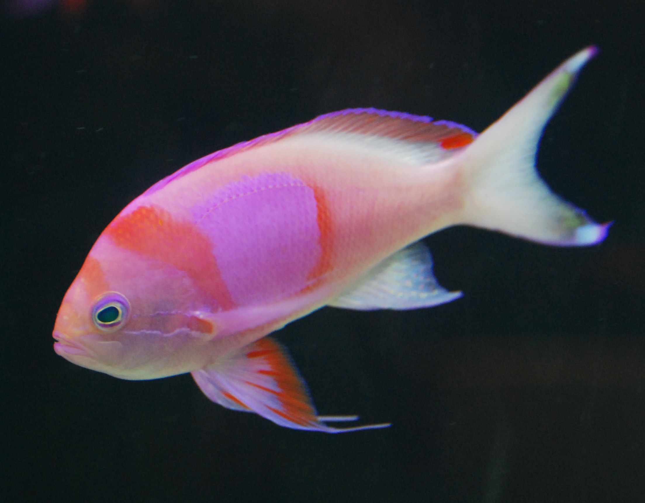 Male squareback anthias, Pseudanthias pleurotaenia, with bold pink stripes, at Seattle aquarium.